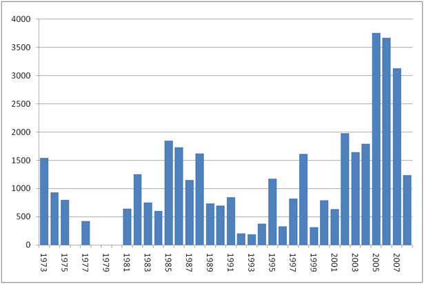 Average attendance in home matches of Finland women's football national team. Sources: Yrjö Lautela & Göran Wallén: Rakas jalkapallo, Teos 2007, ISBN 978-951-851-068-3; Heidi Soininen (ed.): Jalkapallokirja 2007-2009, ISSN-0787-7188